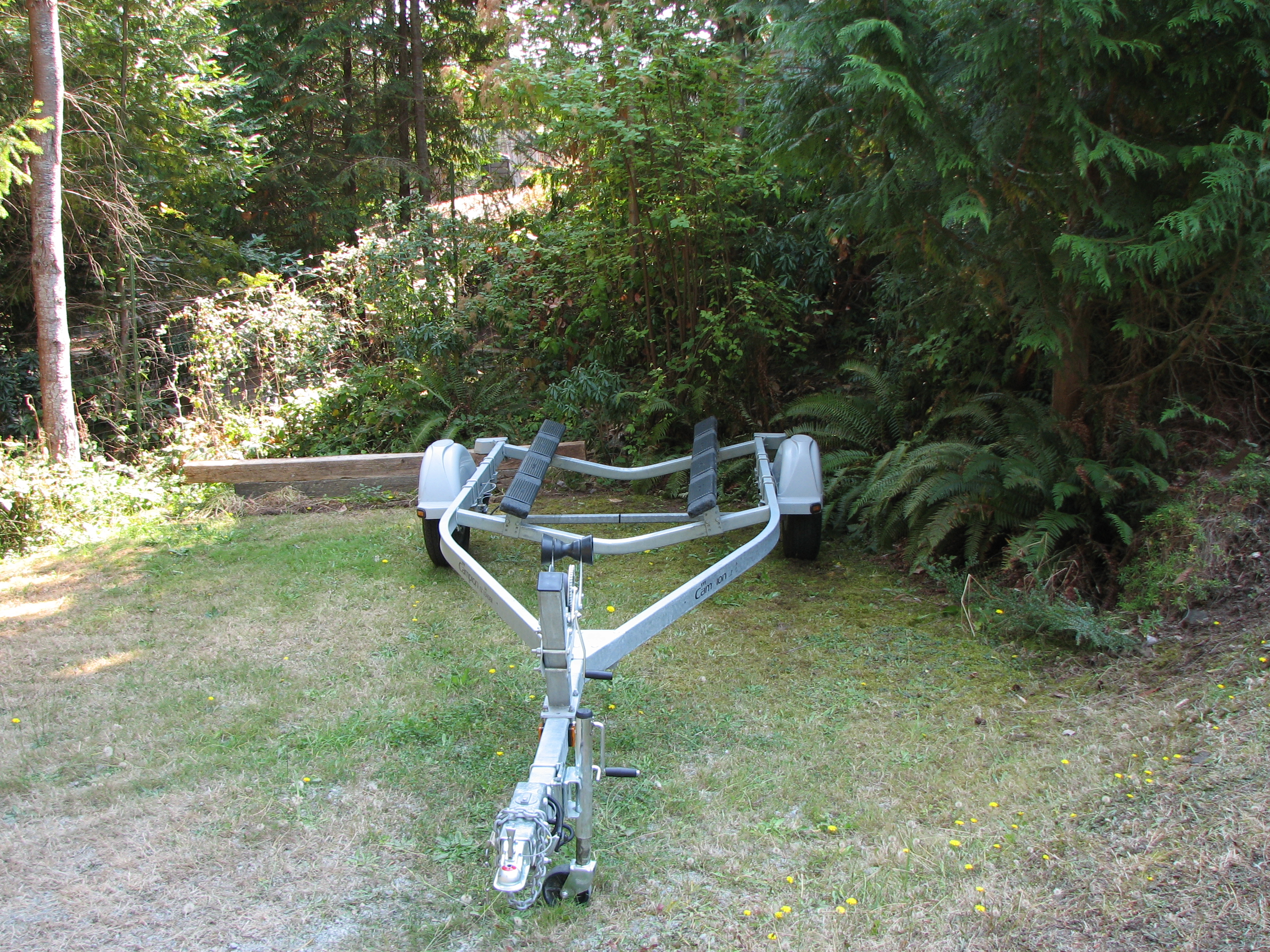 The empty boat trailer seen on en article.